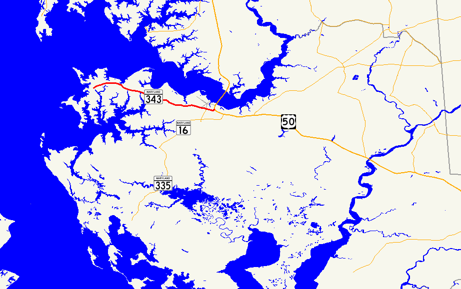 Map of Maryland Route 343